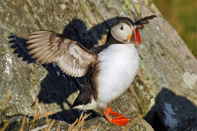 Puffin (Fratercula arctica) at the island of Runde in Norway